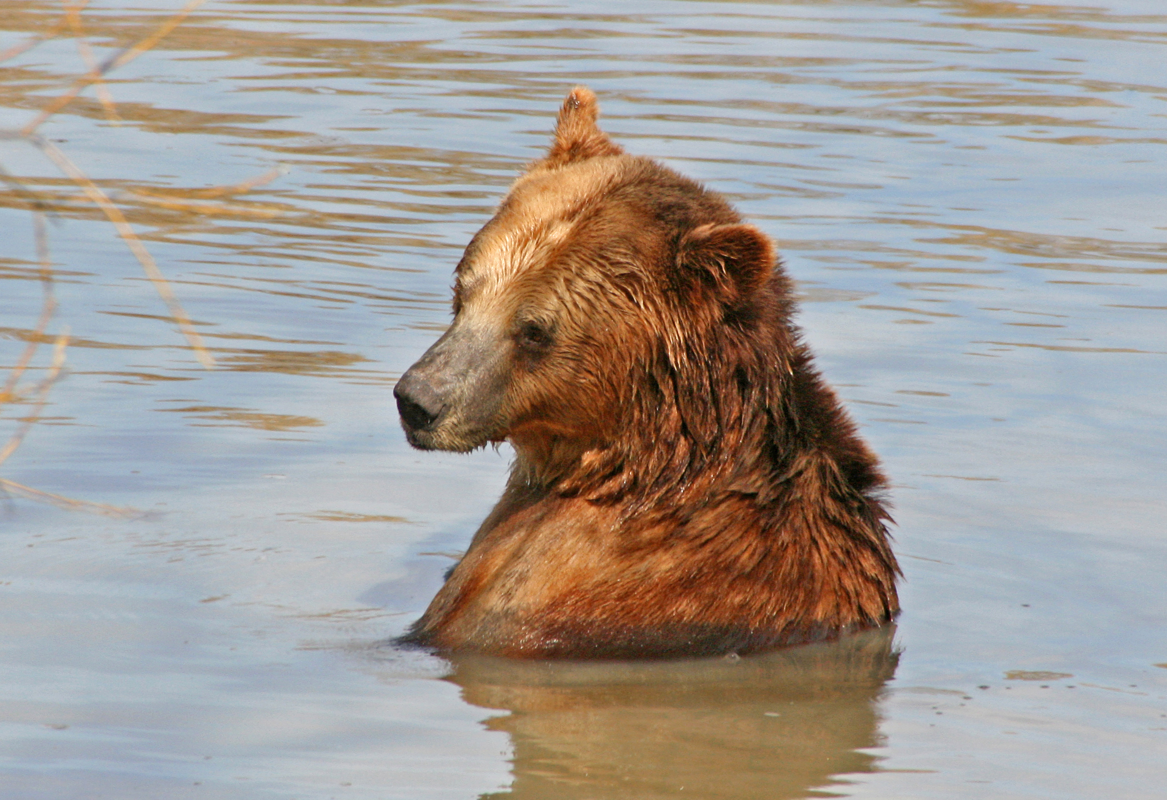 Brown Bear in the Water, Parc de Sainte Croix, Rhodes, France